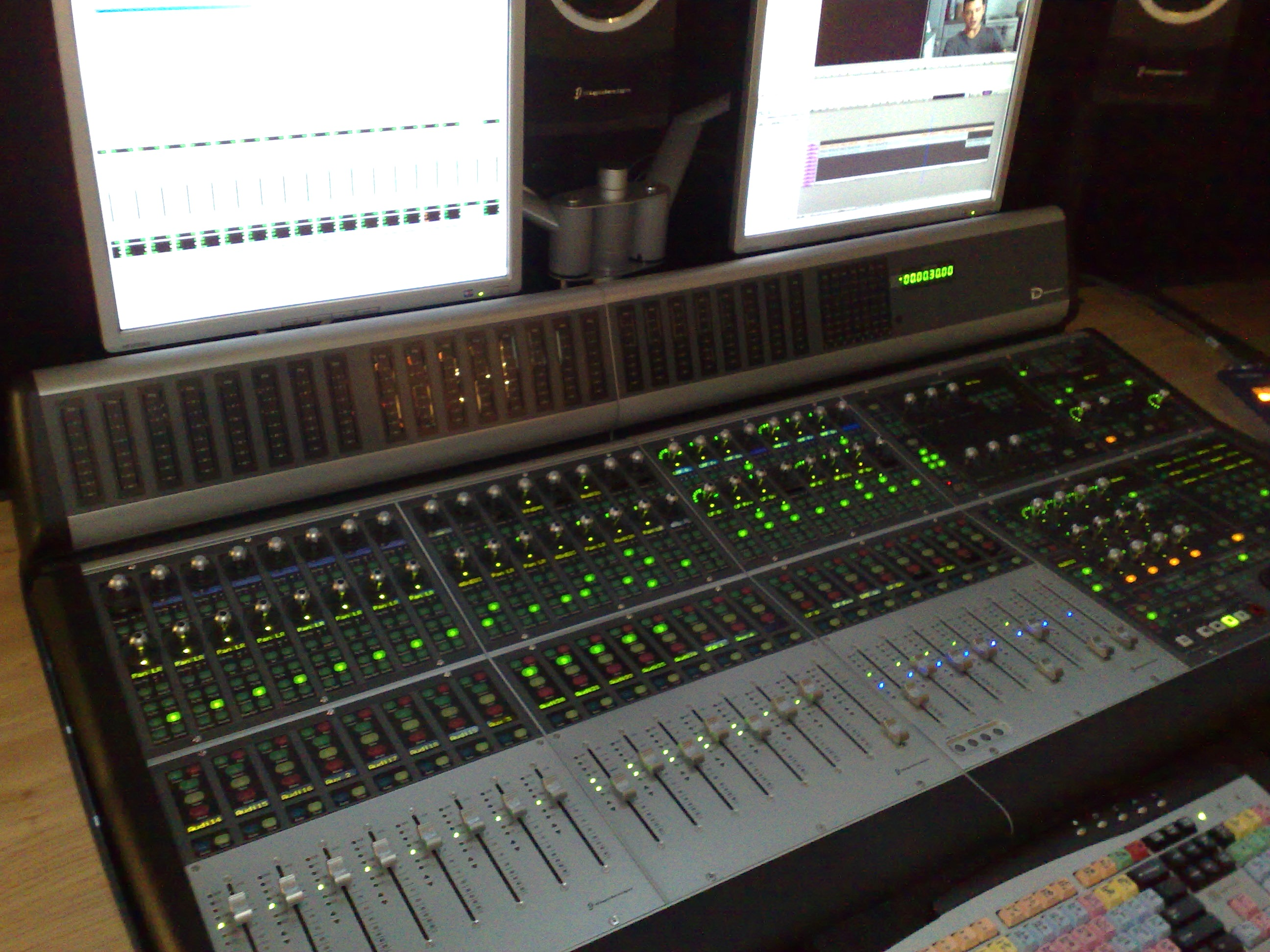 Black seems to be the new black. Same place as last IBC. I was rather underimpressed by the Digidesign booth. I bet they are working on Protools 8 which will blow our socks off. Or not.